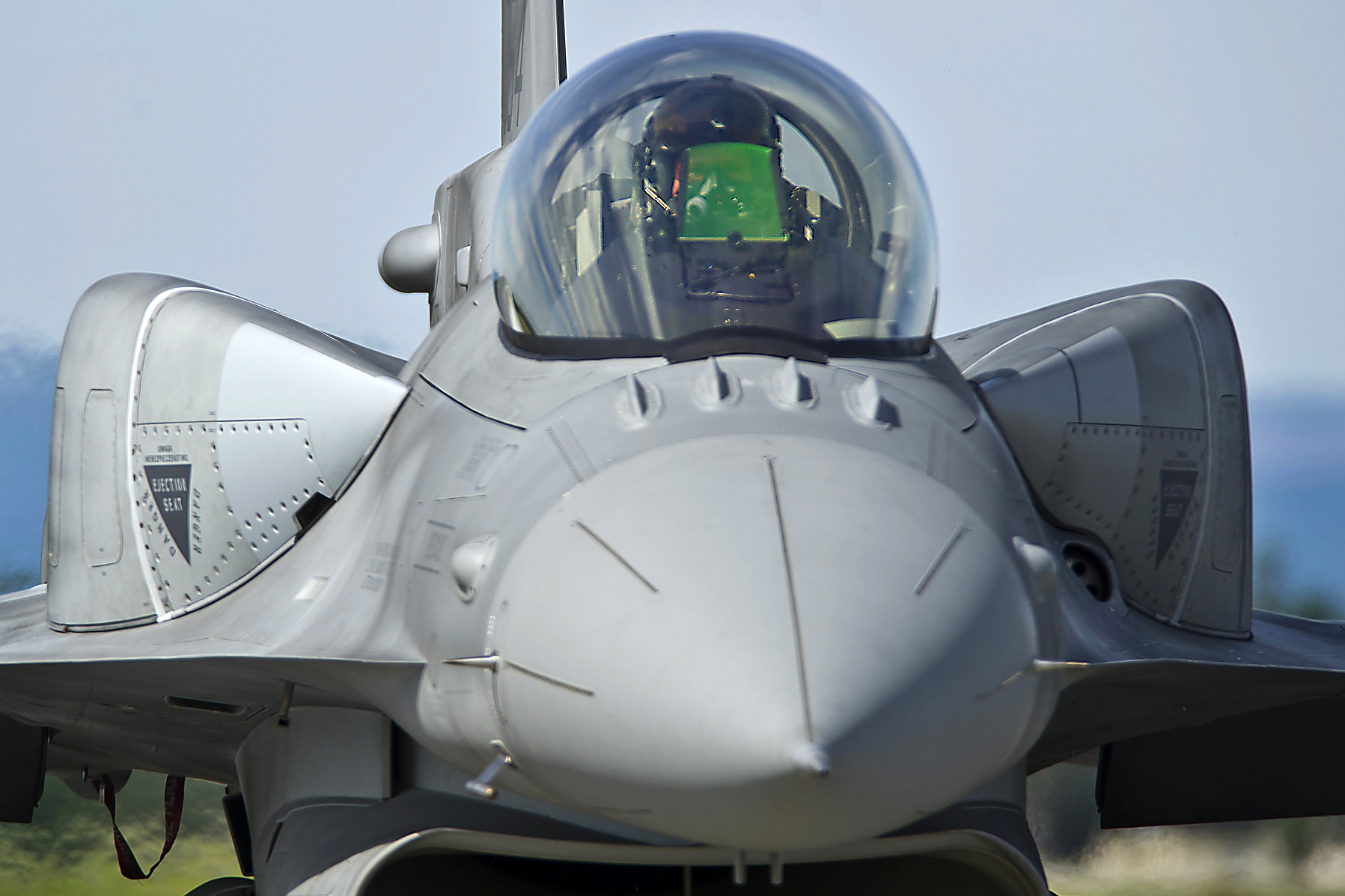 A Polish air force pilot conducts a preflight check from the cockpit of an F-16C Fighting Falcon before departing for a combat training mission during Red Flag-Alaska 12-2 on Eielson Air Force Base, Alaska, June 11, 2012. U.S. Air Force photo by Tech. Sgt. Michael R. Holzworth